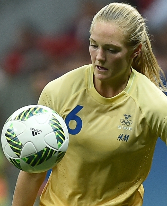 Swedish footballer Magdalena Ericsson at Estádio Nacional de Brasília Mané Garrincha, Brasil, during match SWE x CHN for Rio 2016 in Aug. 8, 2016 Foto: Andre Borges/Agência Brasília